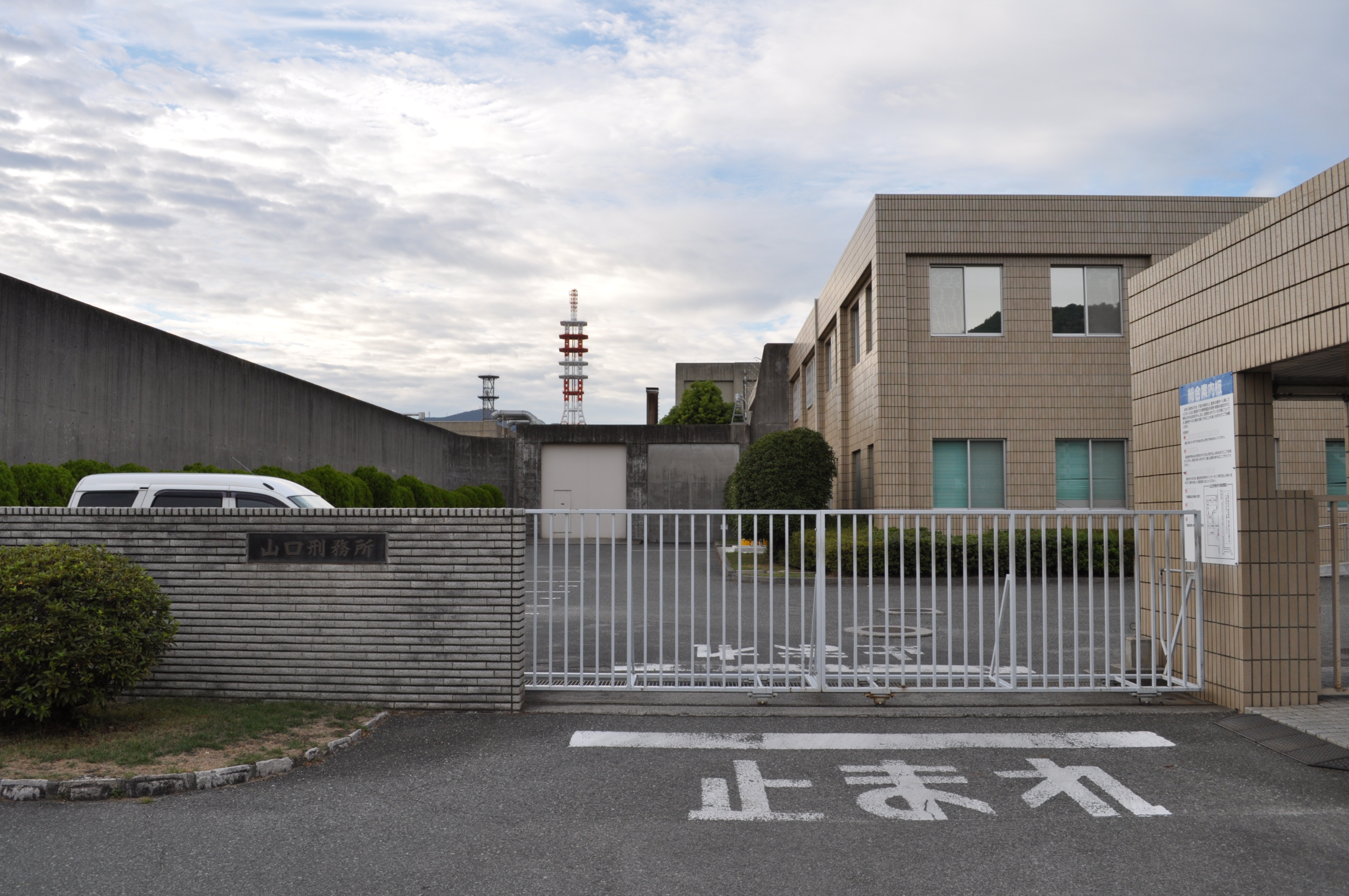 The view of the entrance gate of Yamaguchi prison.